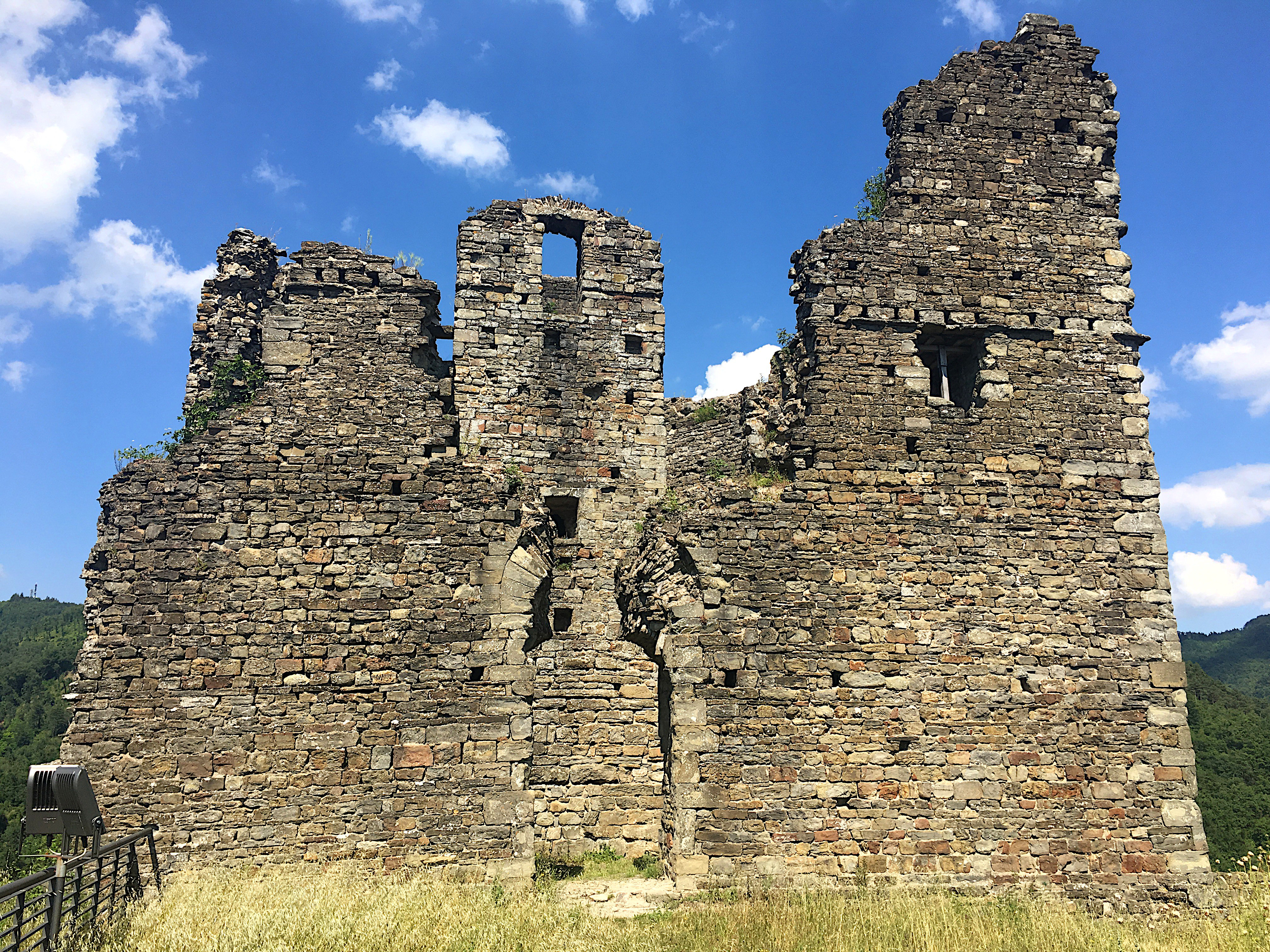 Rocca di Cerbaia (Cantagallo)